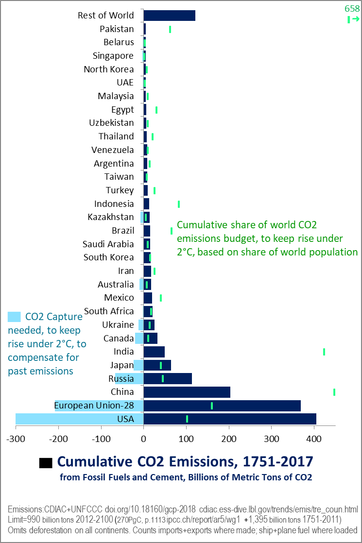 Cumulative CO2 Emissions